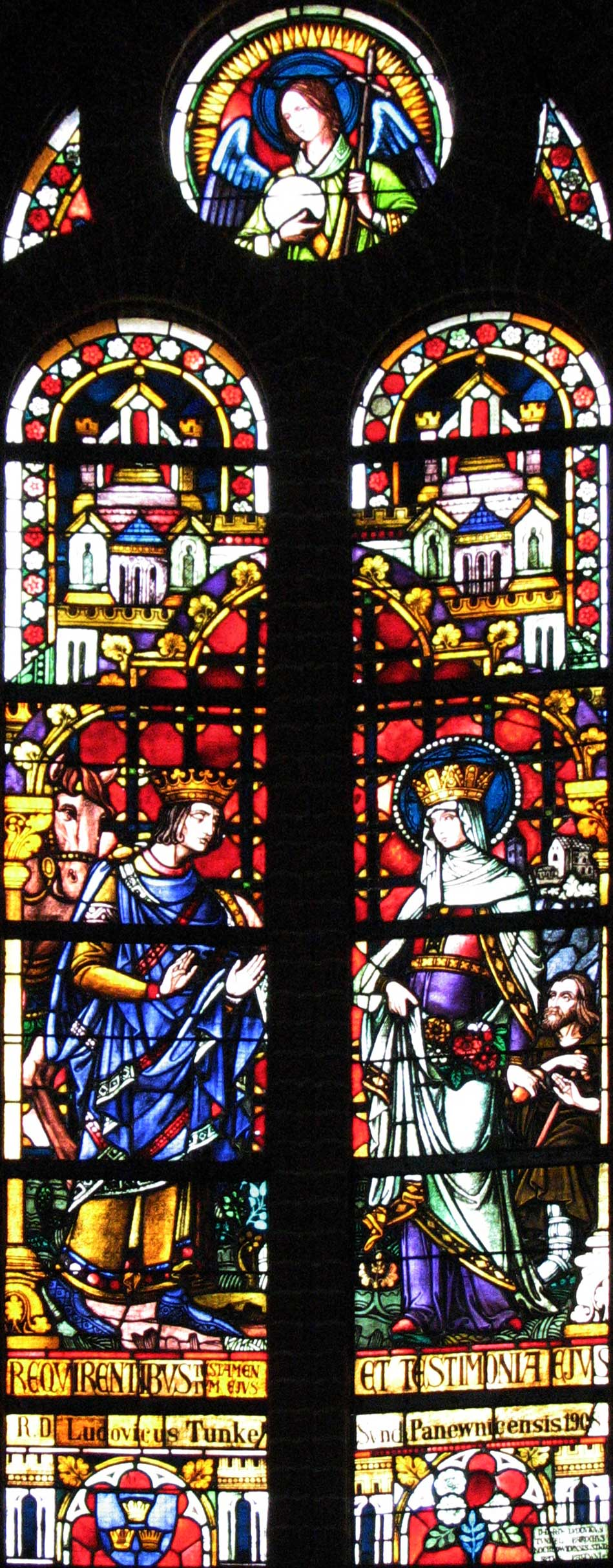 Stained glass window in the upper presbytery of the Basilica of St. Louis King in Katowice Poland, XX century - Saint Elisabeth of Hungary